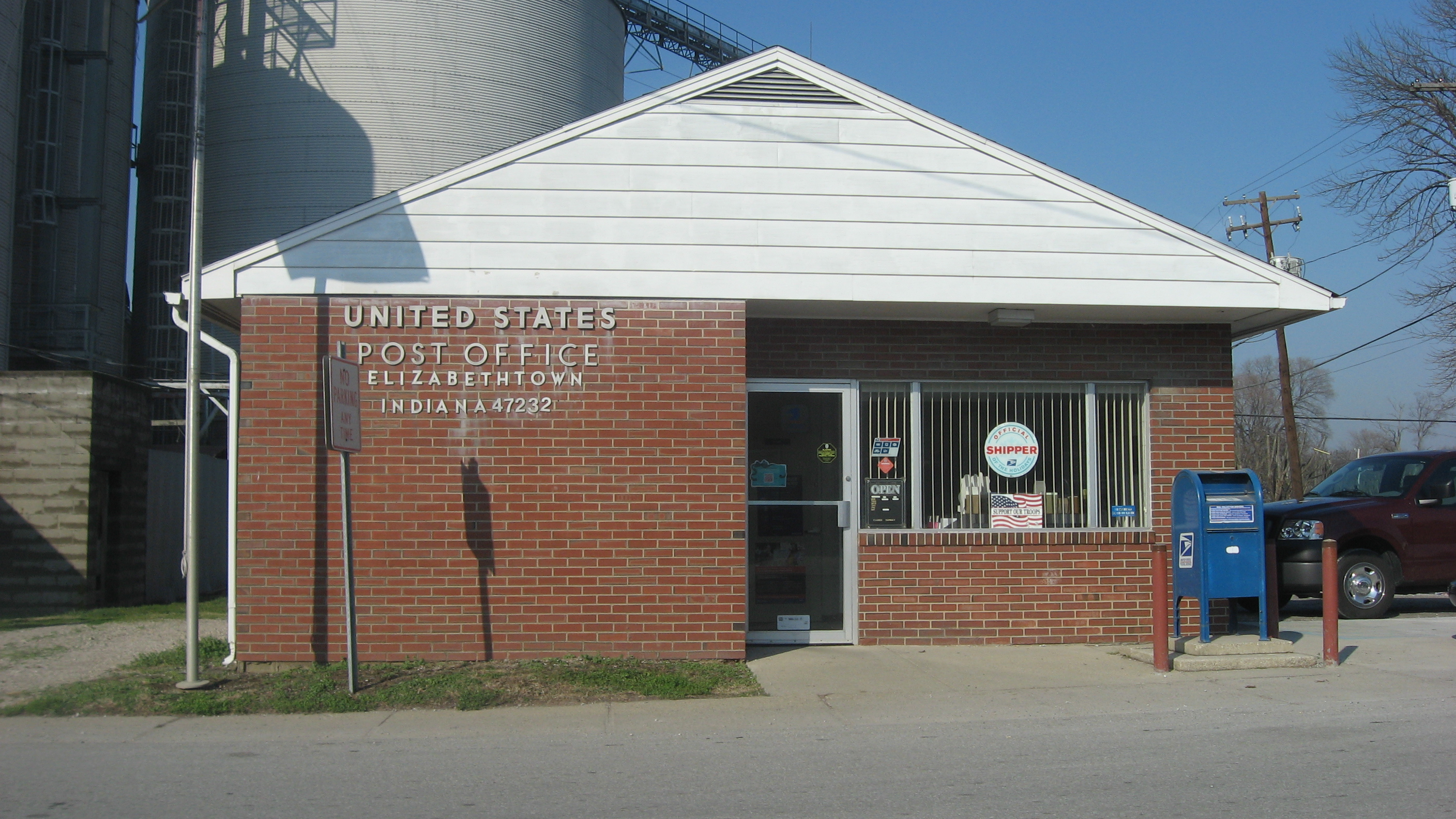 Front of the Elizabethtown post office, located at 102 Second Street in Elizabethtown, Indiana, United States.